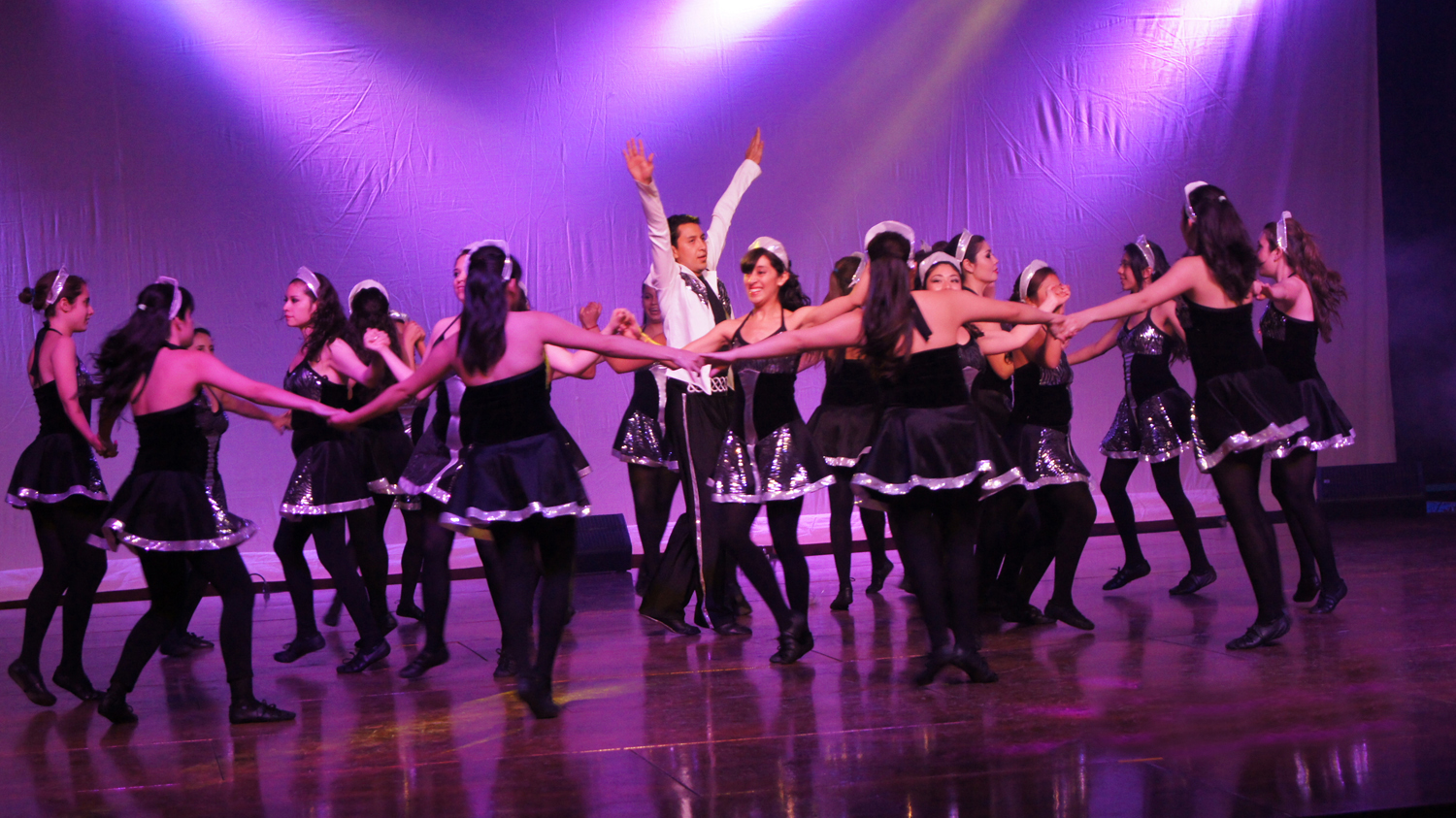 Student performers of Tap Dance at "Semana de la cutura" in ITESM CCM.